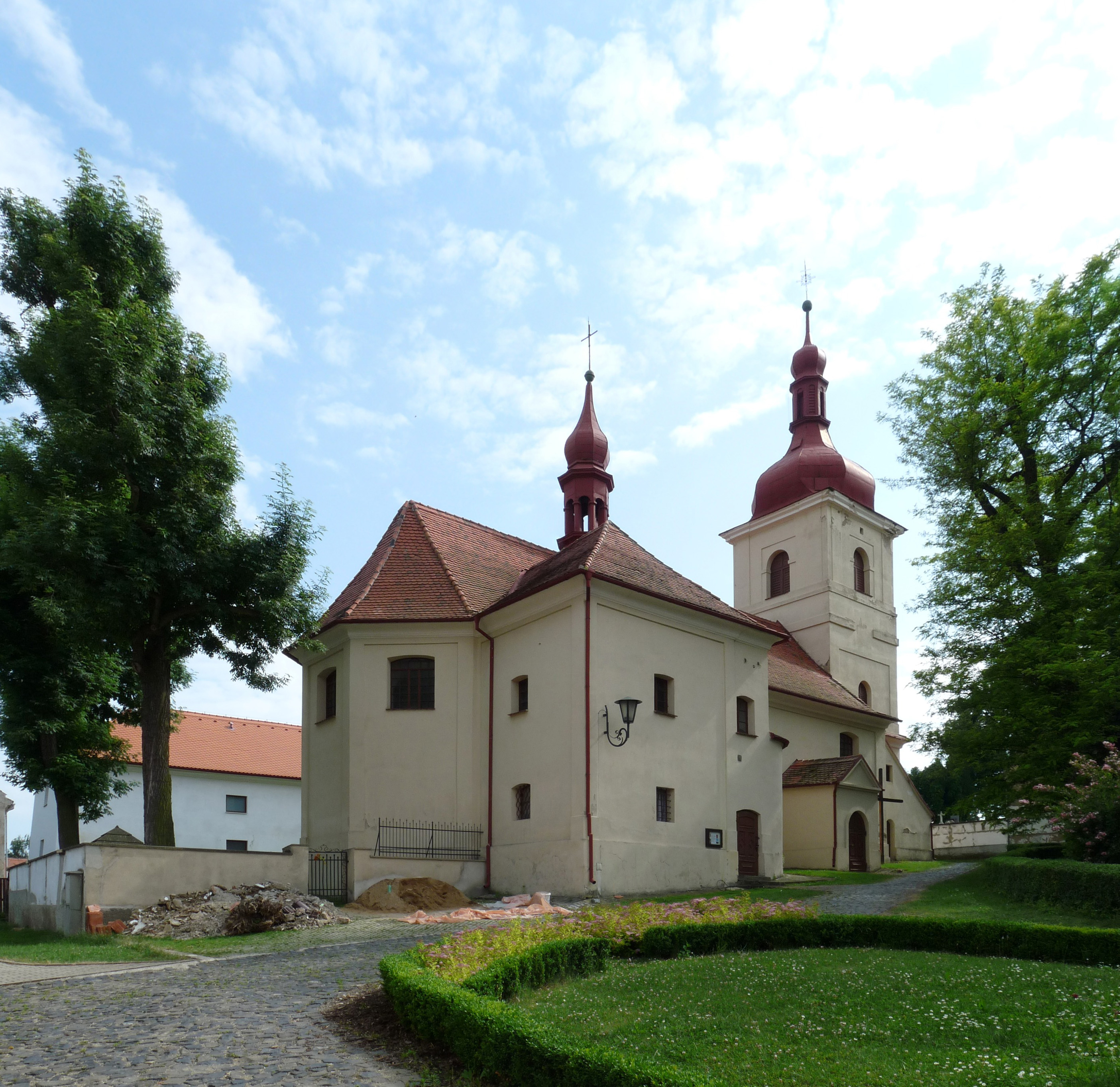 Church of St Wenceslaus in the village of Třebívlice, Litoměřice District, Ústí nad Labem Region, Czech Republic.